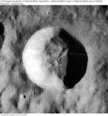 LO-IV-102H The dark feature on the upper left margin is the rim of an unnamed 6-km crater along a ridge at the foot of Mons Bradley.